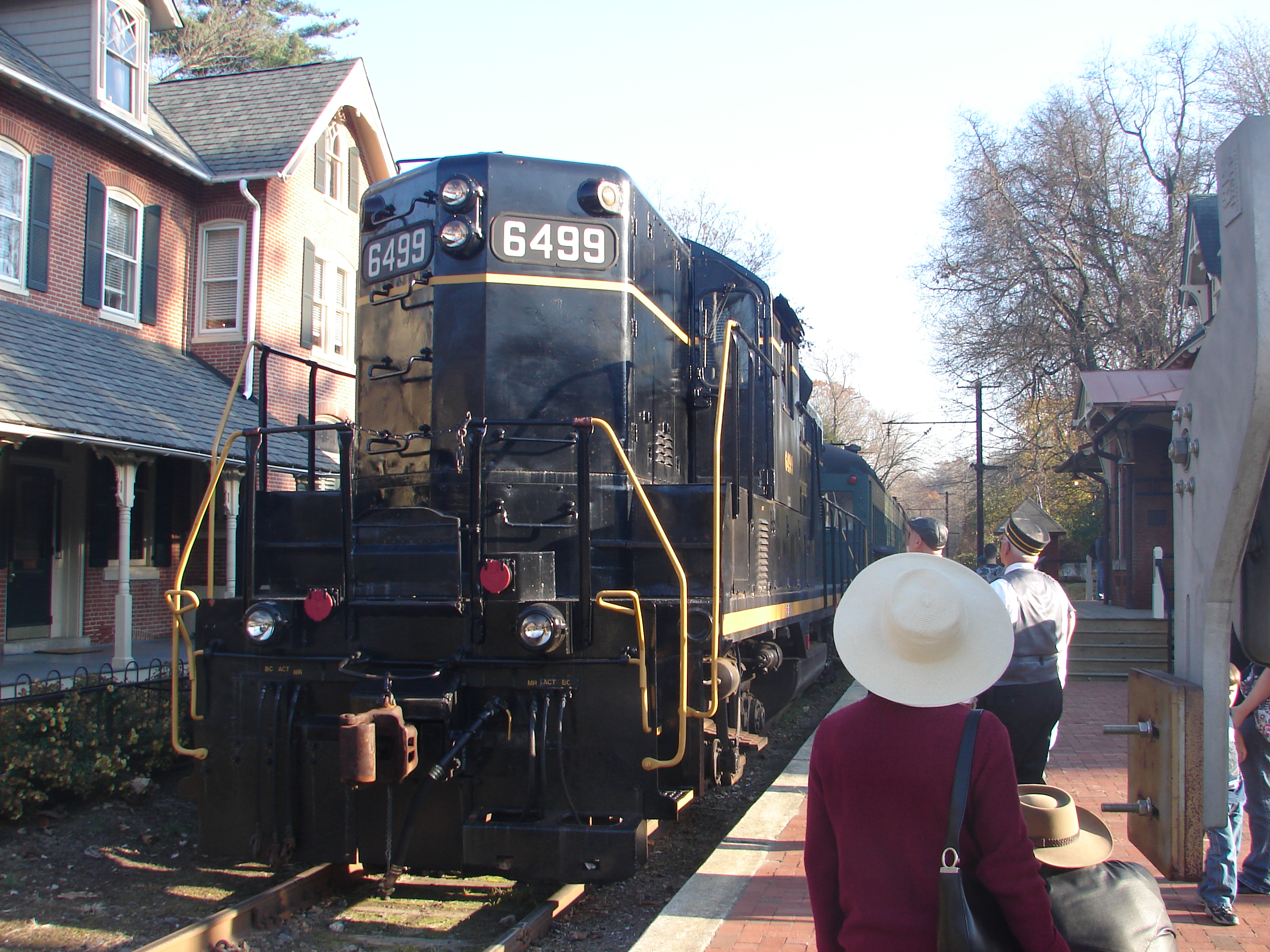 West Chester Railroad train in Glen Mills, PA. This is my own work and I donate it to the Public Domain.